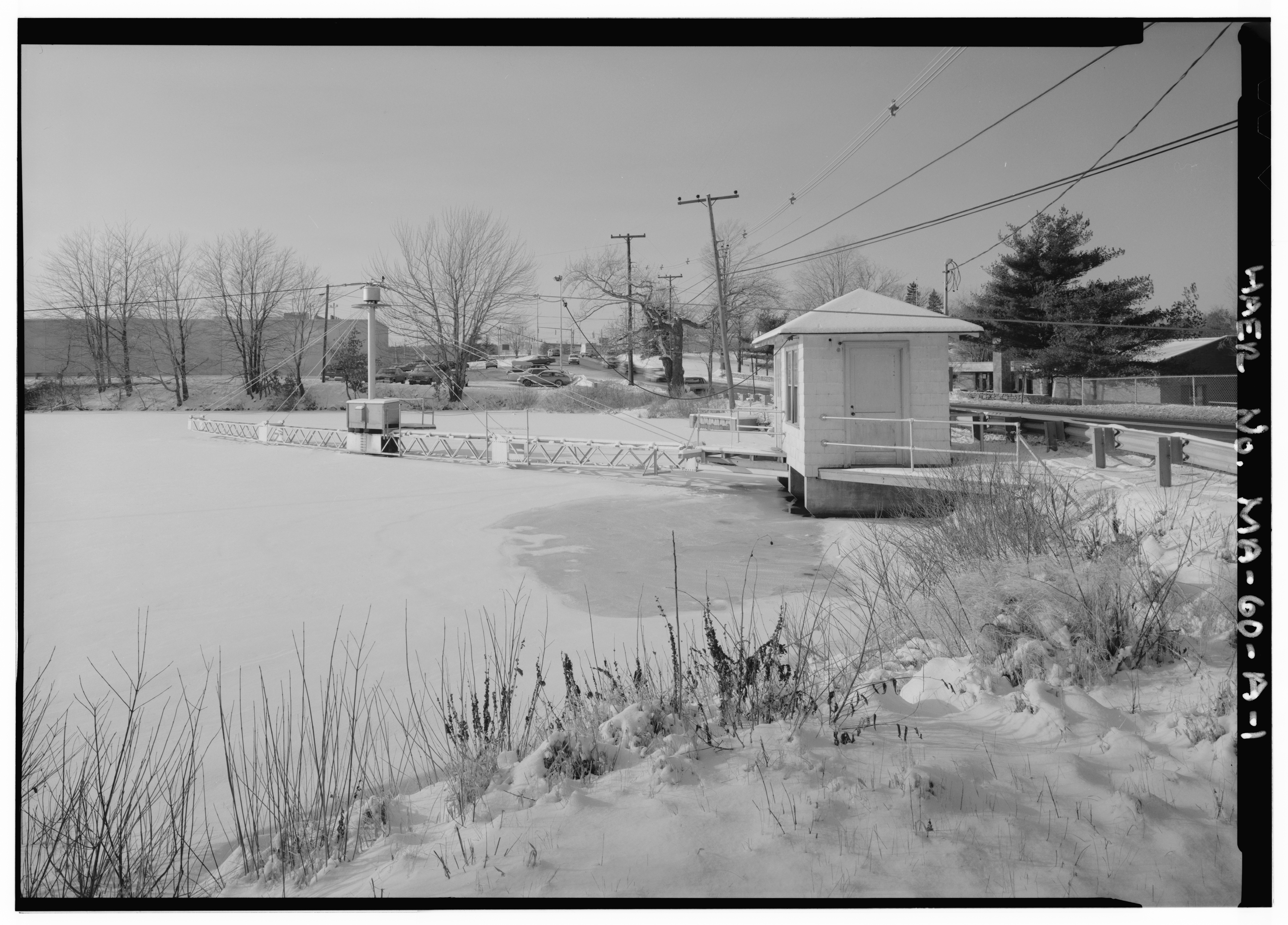 Rotating boom at the Alden Research Laboratory, Holden, Massachusetts, USA. This wooden rotating boom was built in 1908 and is now an ASME Historic Landmark. Photograph taken in January 1985.